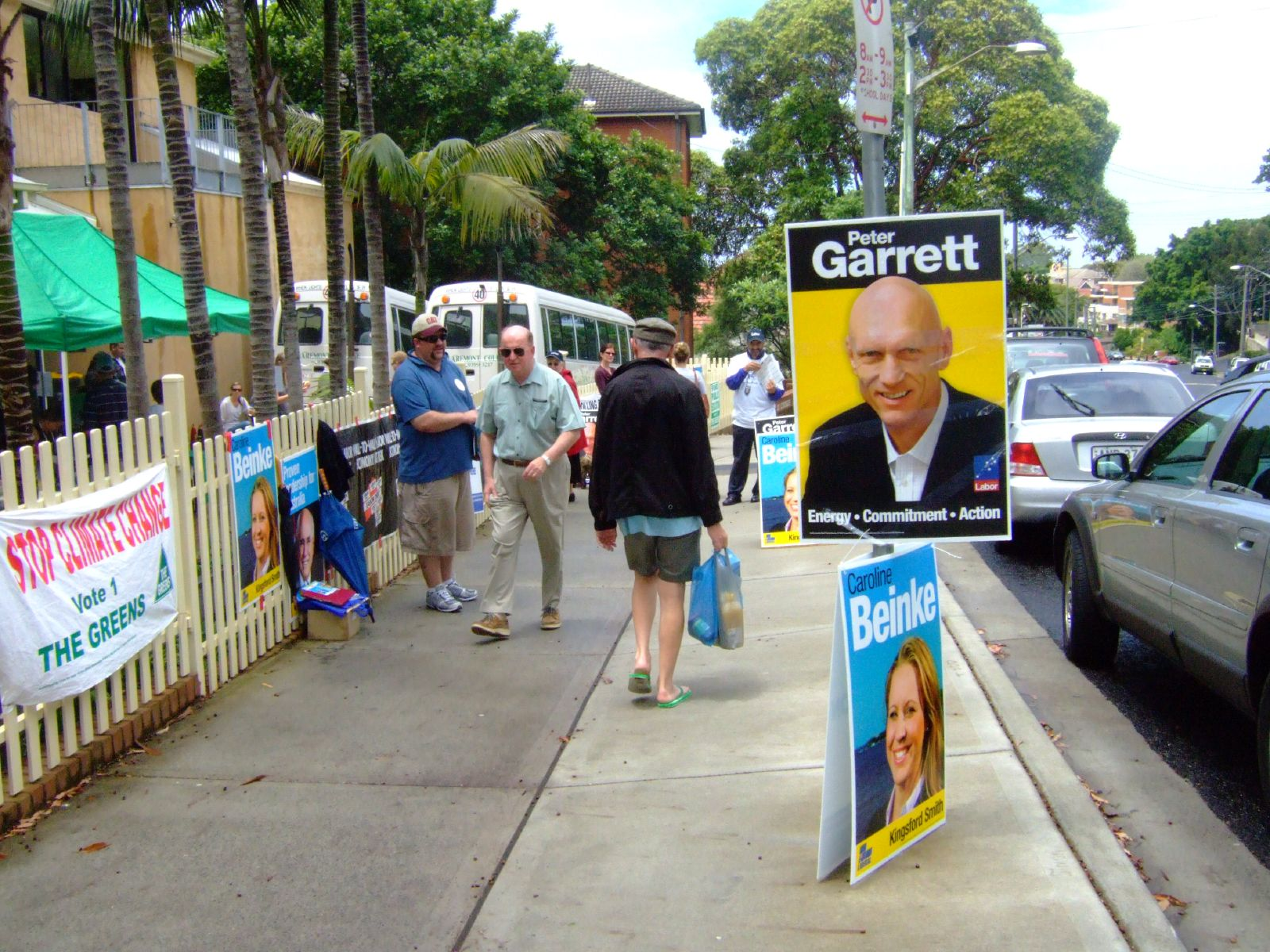 A polling booth in the Division of Kingsford Smith at the 2007 Australian federal election.